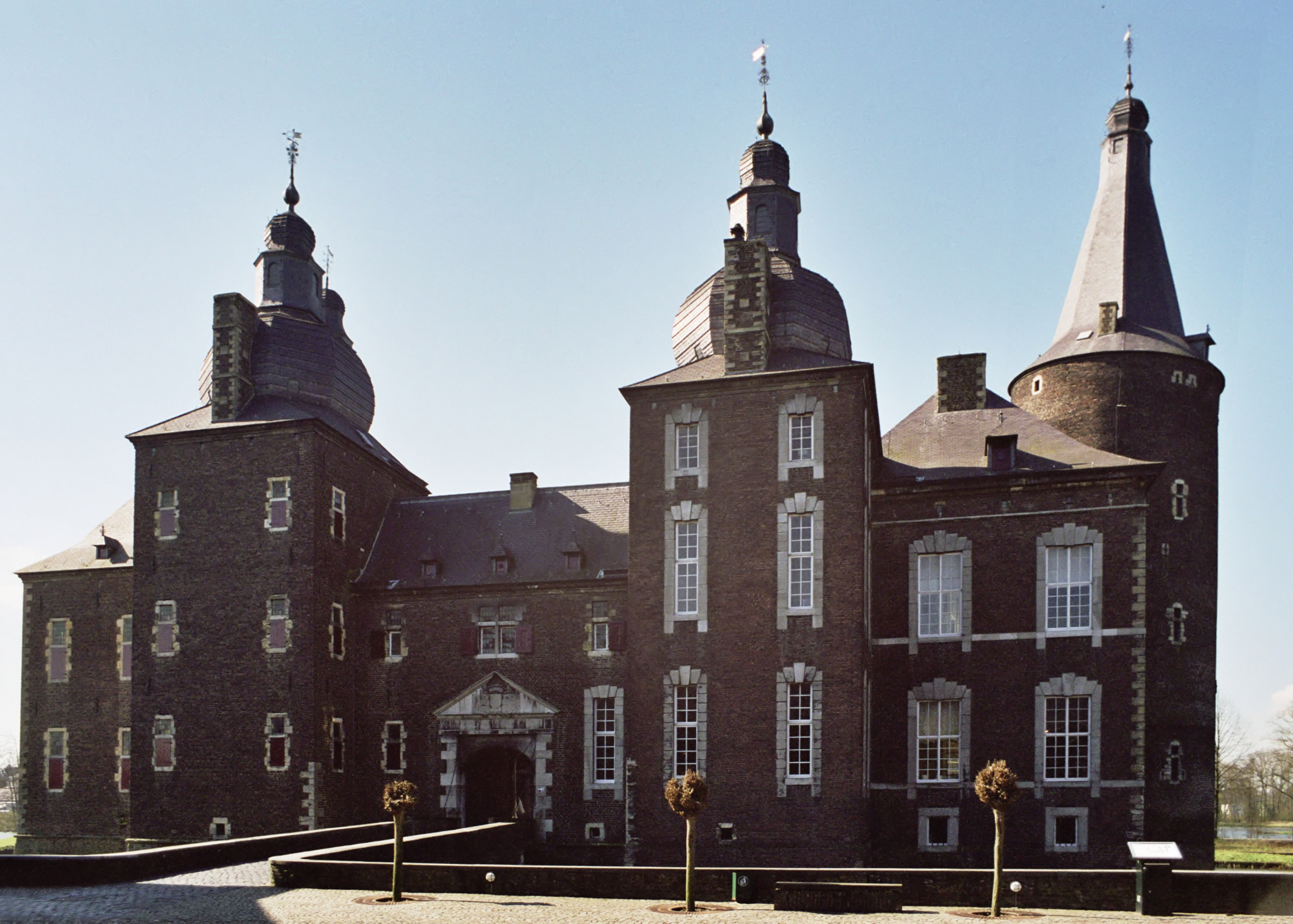 Hoensbroek Castle in Hoensbroek, Heerlen, Limburg, the Netherlands - Main building